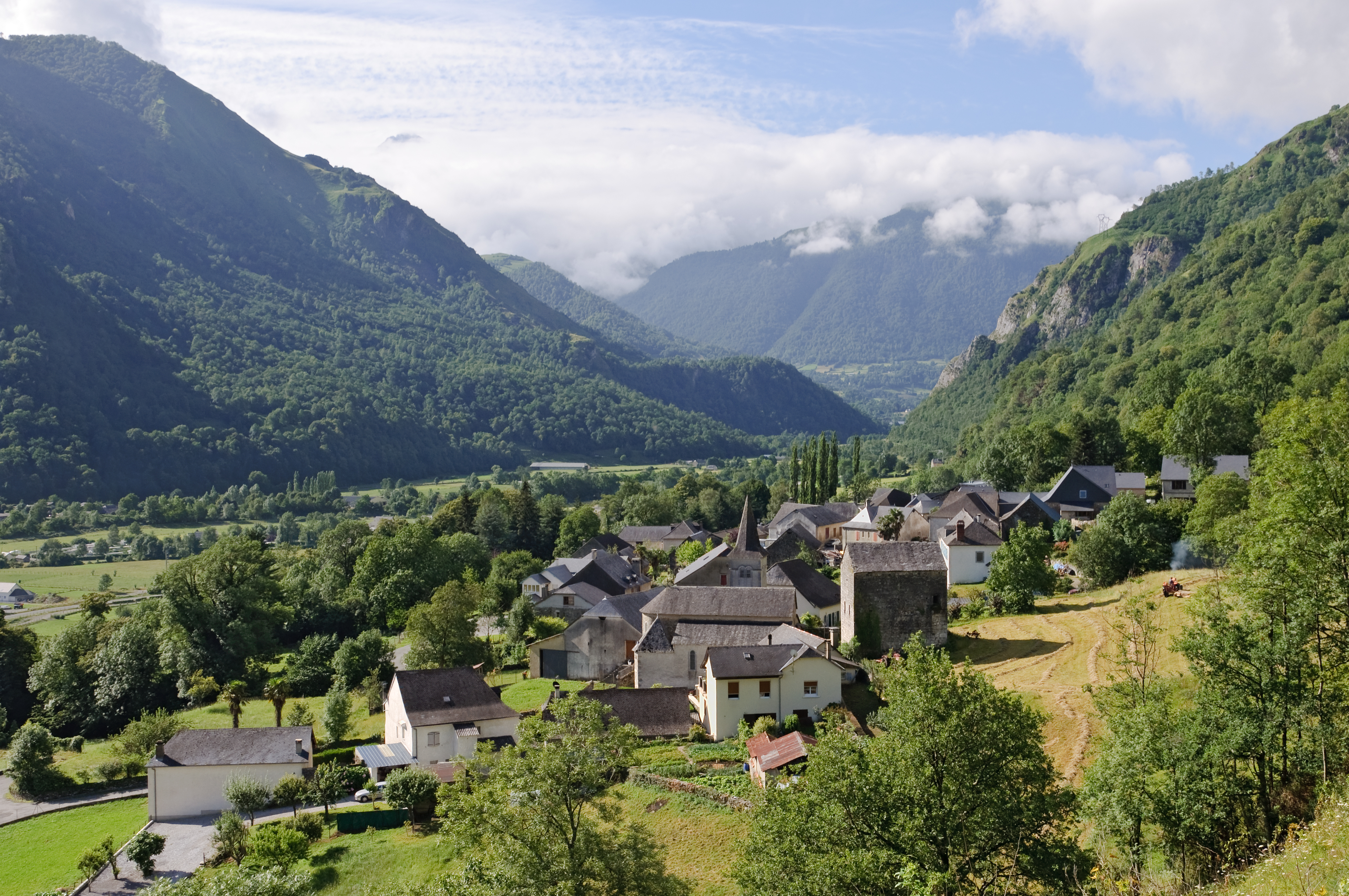 Gère, one of the two villages joined in the commune of Gère-Bélesten, in the Ossau Valley, Pyrénées-Atlantiques, France.